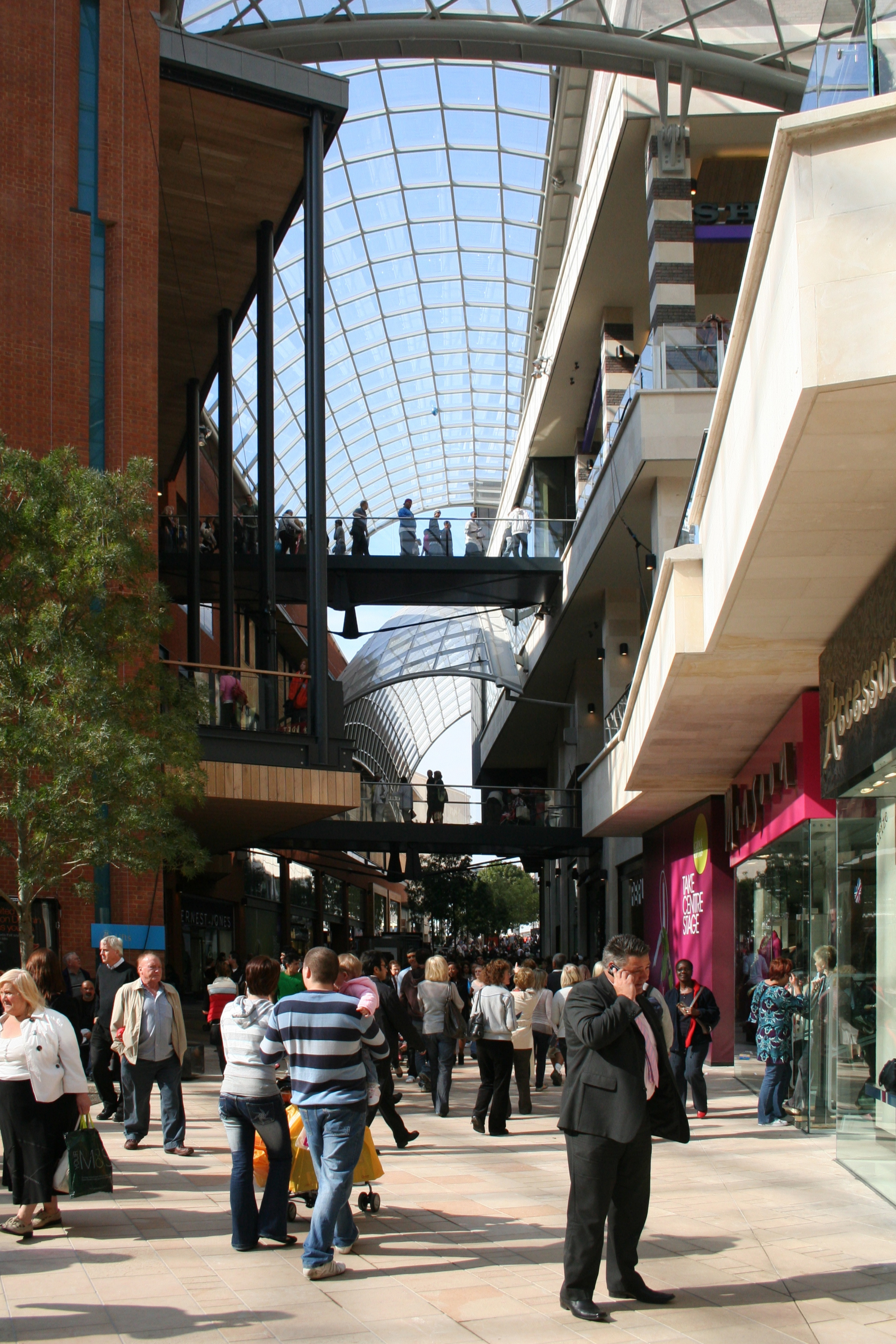 A photograph of the Cabot Circus shopping mall in Bristol, UK. Taken on the day of opening.